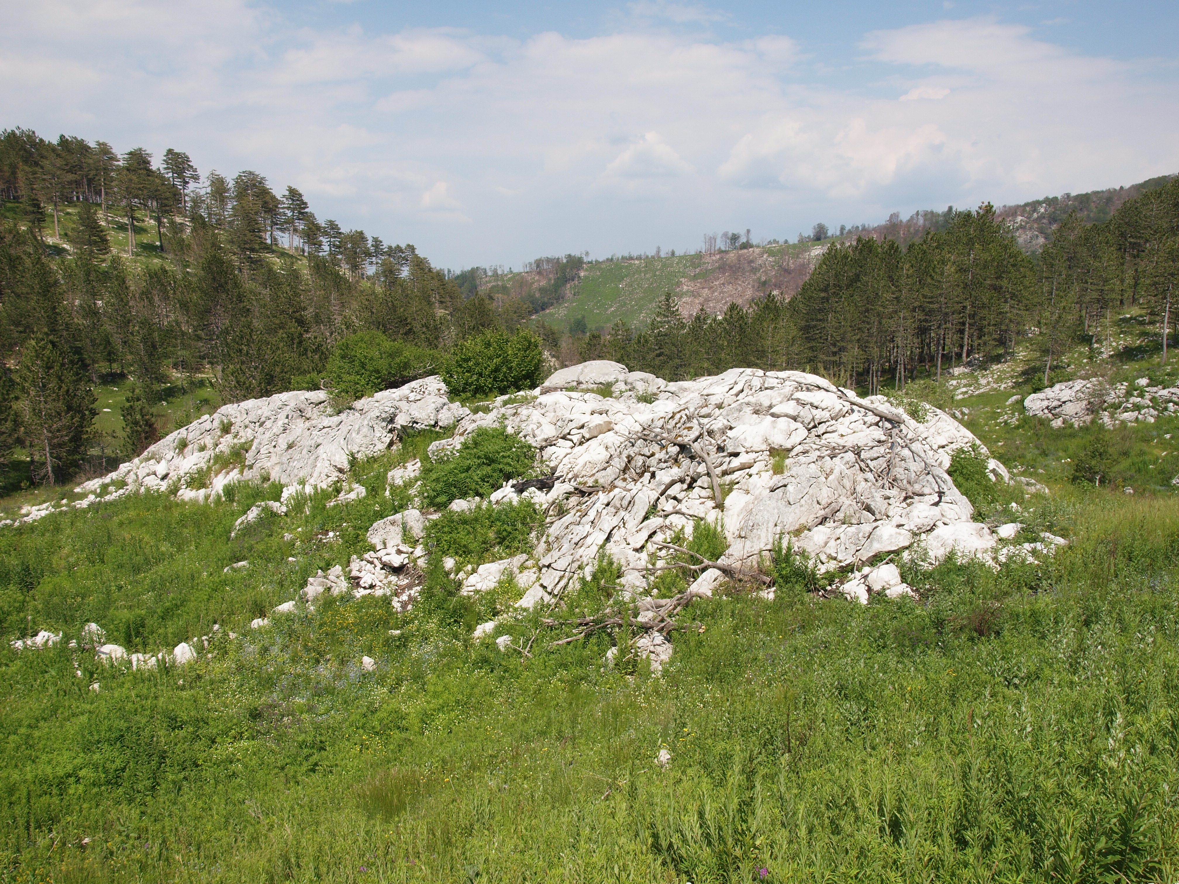 Roches moutonnee Bijela gora Orjen range Montenegro